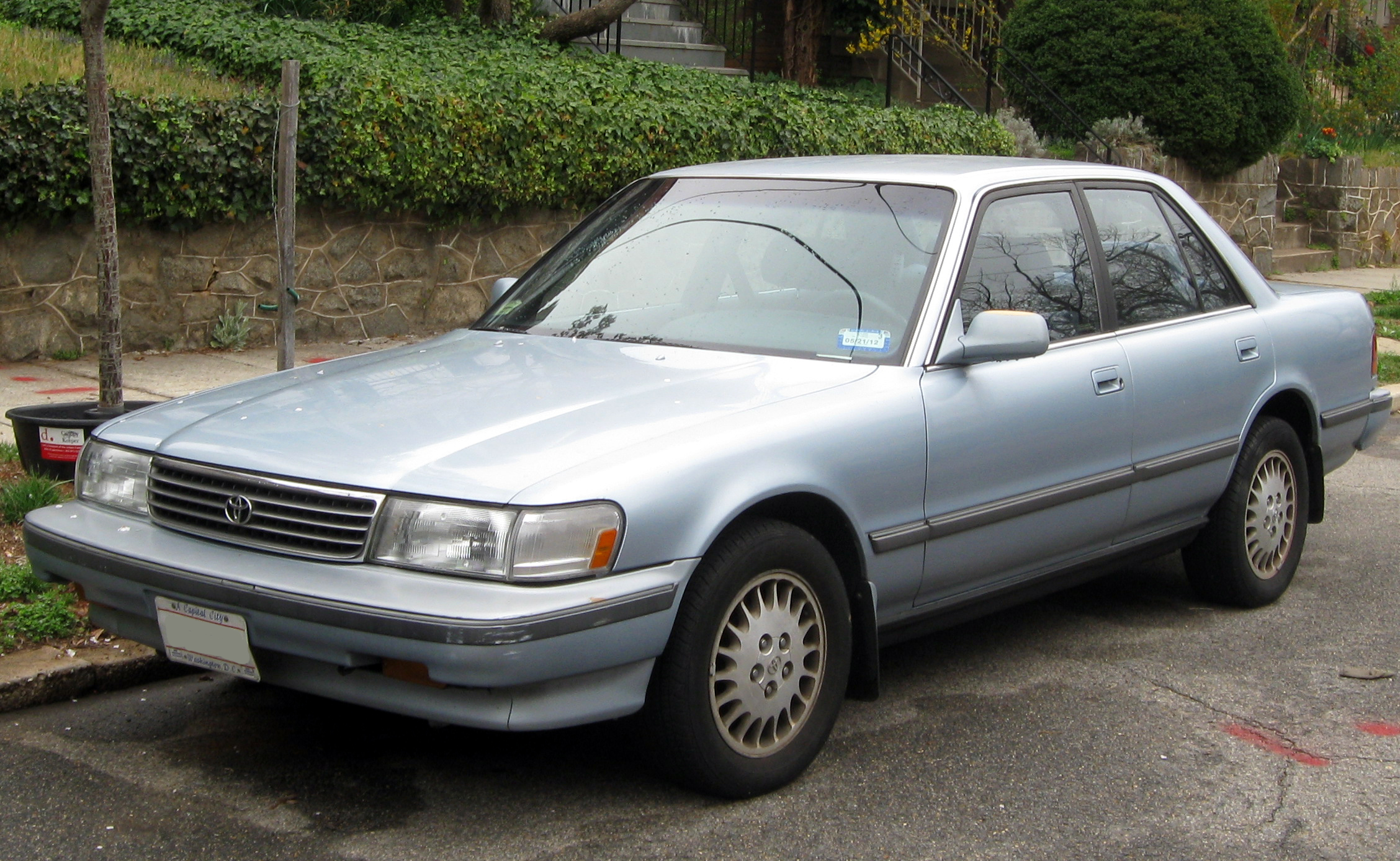 1991-1992 Toyota Cressida photographed in Washington, D.C., USA.